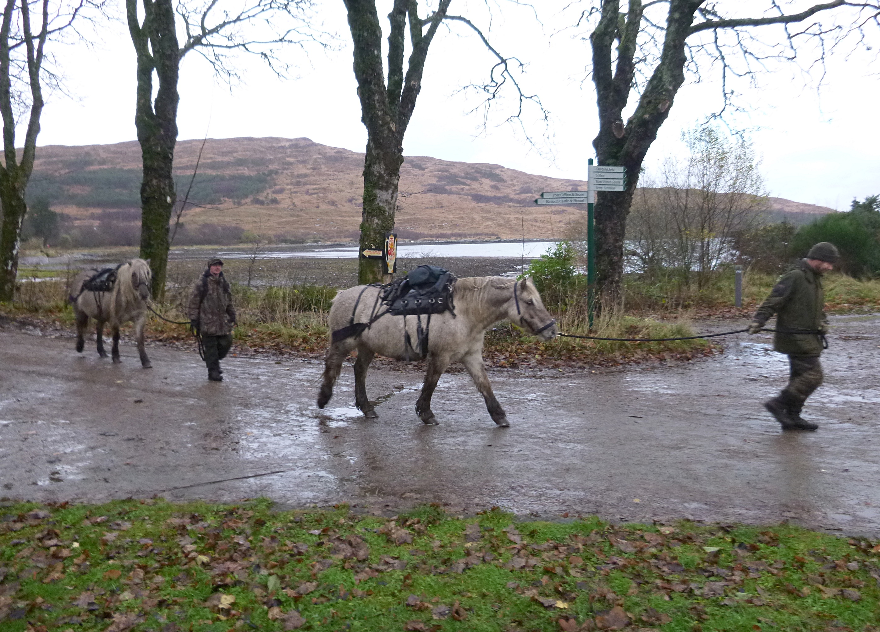 Rum ponies, Kinloch